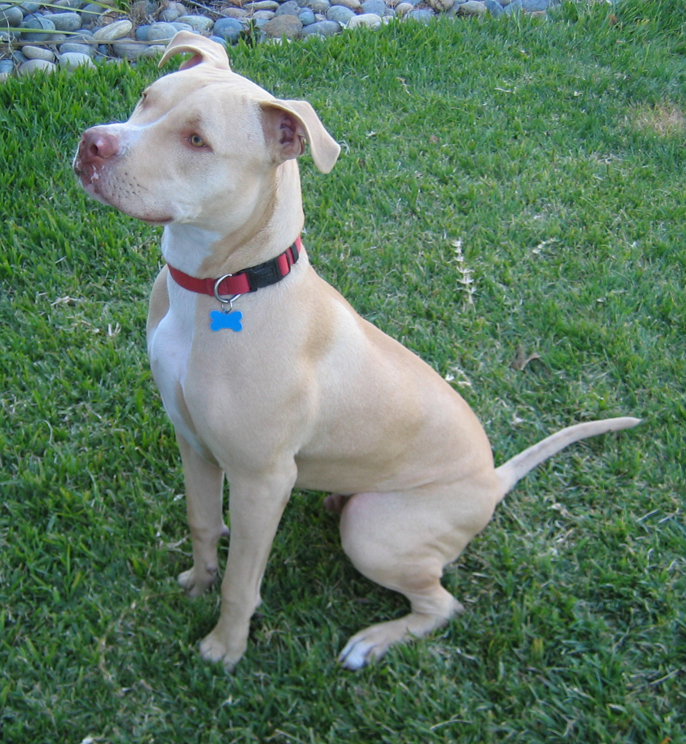 American pit bull terrier (named Tuttle) seated.